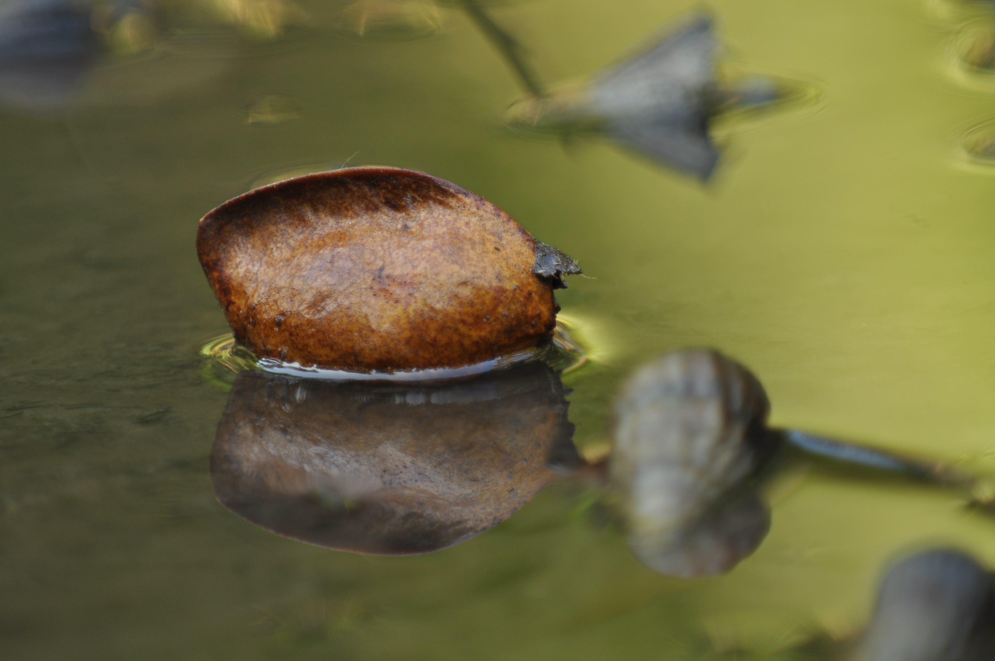 Seed of Heritiera littoralis in a mangrove in the Andamans.